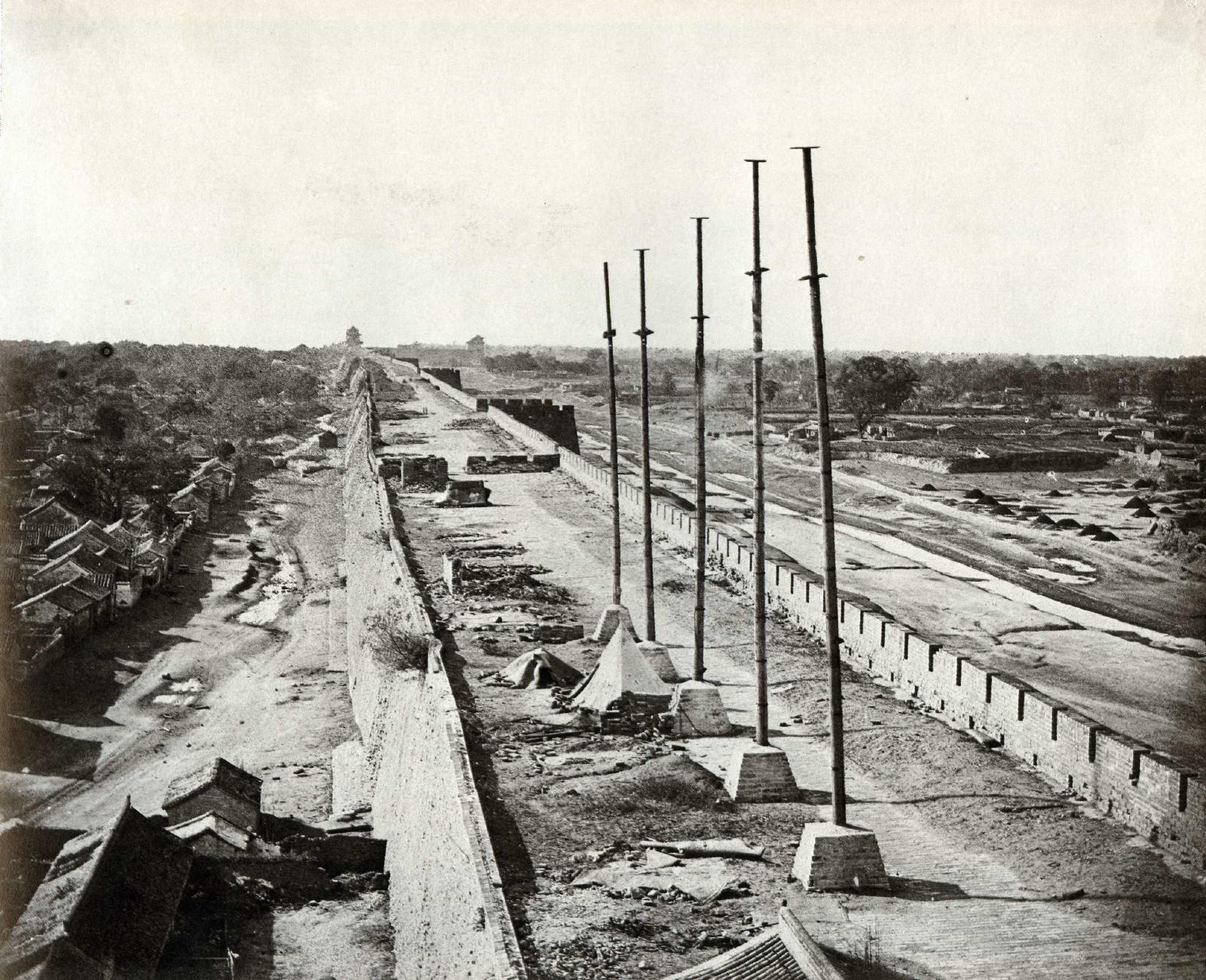 Title: Top of the Wall from Anting Gate. Peking Taken Possession by English and French Troops.[1]